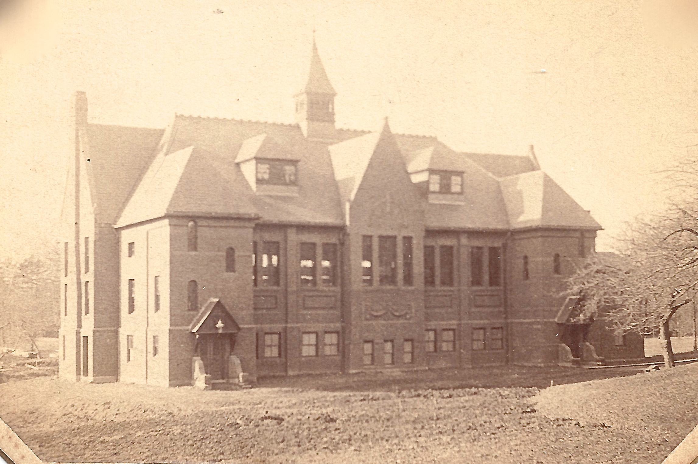 Smith Alumnae Gymnasium, Smith College campus Green St. Northampton